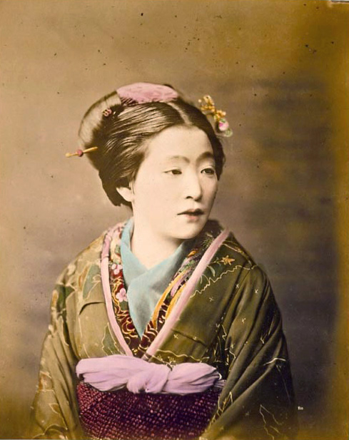 Japanese women, half-length studio portrait, facing slightly right